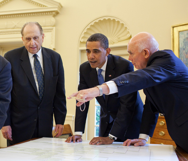 Cropped from a photograph of Dallin H. Oaks pointing out details on a genealogy chart to US President Barack Obama in the Oval Office, while Thomas S. Monson observes. This compilation of Obama's genealogy information was a gift of The Church of Jesus Christ of Latter-day Saints.